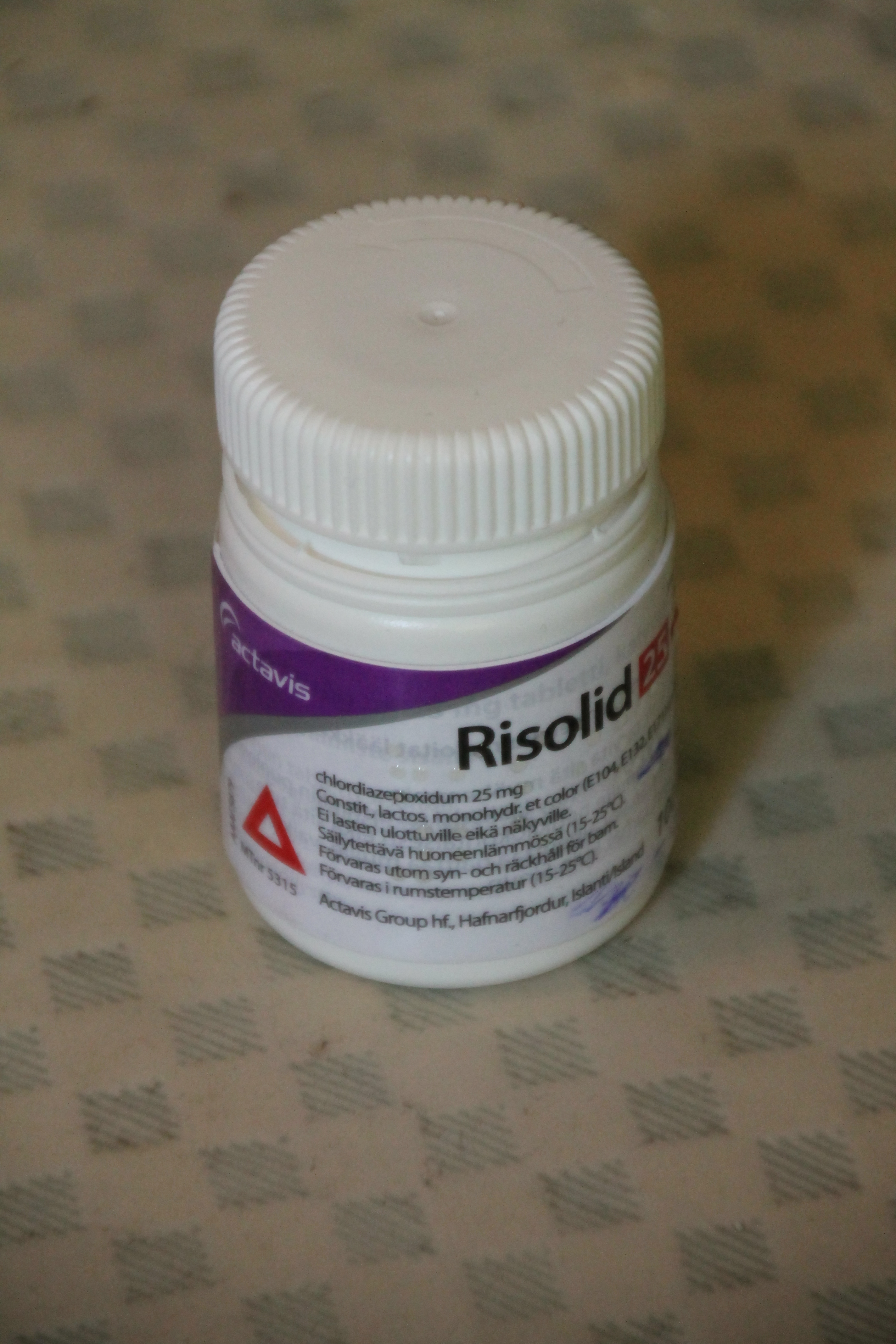 Risolid 25mg (chlordiazepoxide) -package.